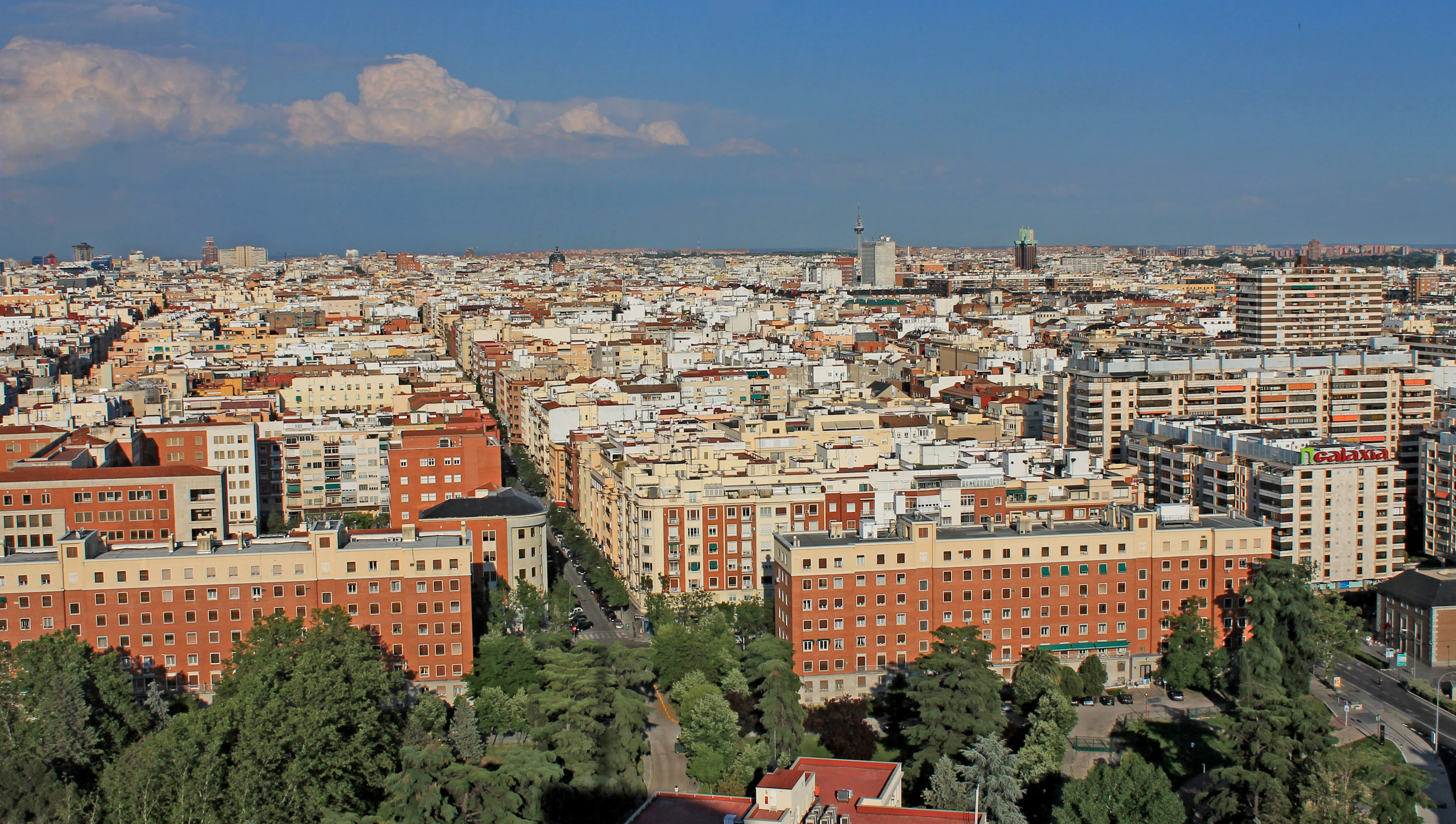 View of Chamberí District in Madrid (Spain) from Faro de Moncloa.